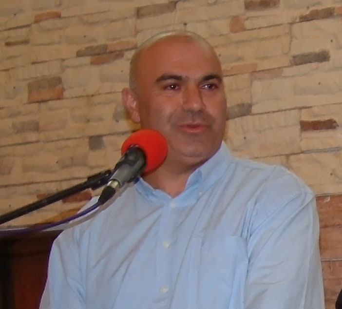 Anti-Terror Seminars by Ami Niv